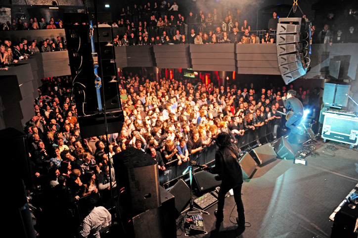 Splendour In The Grass Sideshow at Metropolis (was King's Theatre, Fremantle)